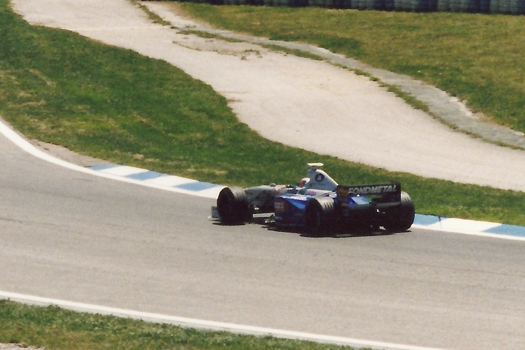 Shinji Nakano in the Minardi M198-Ford during 1998 Spanish Grand Prix